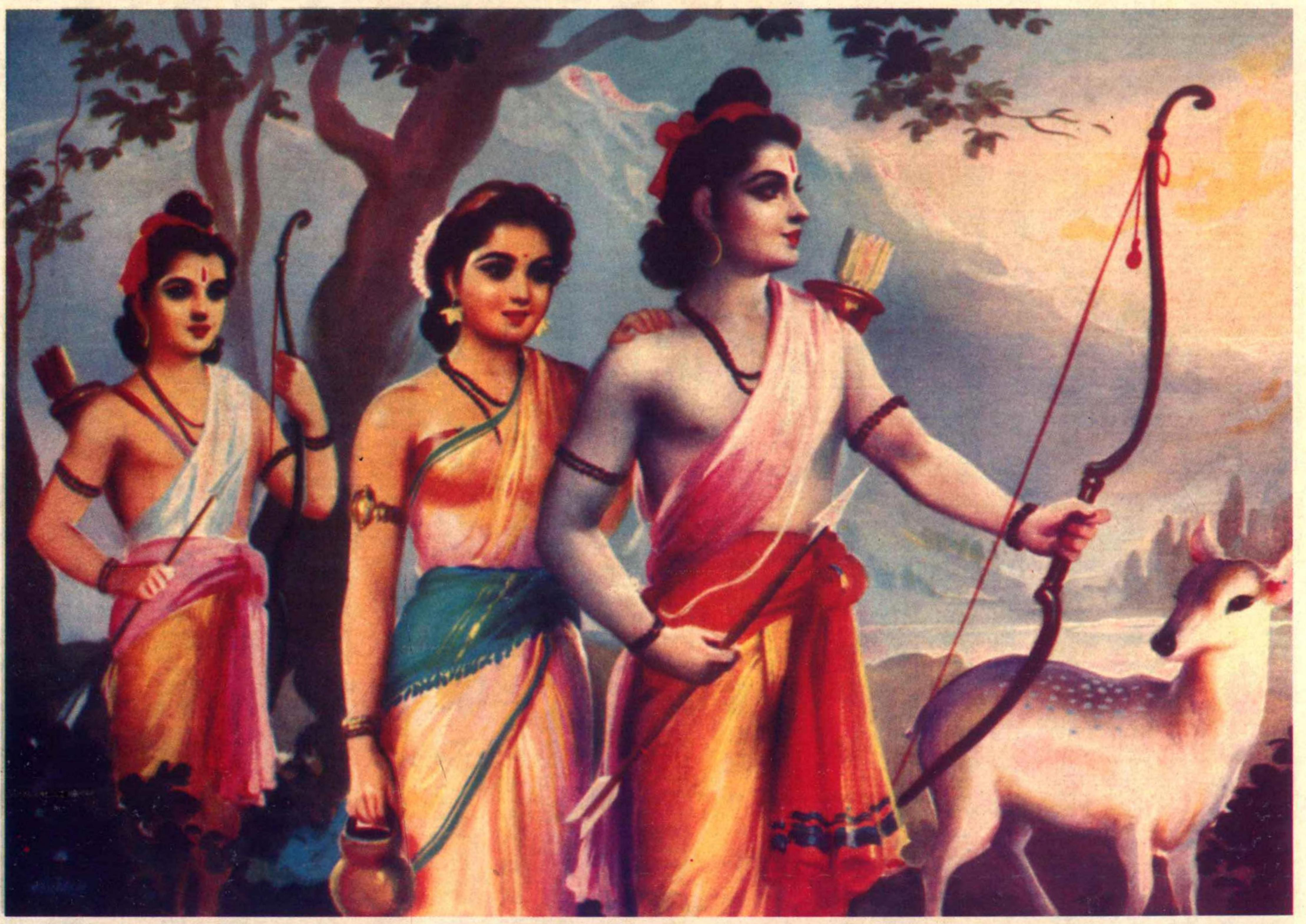 Tulsi Ramayan Tej Kumar Book Depo by MahaMuni Usage Topics Sanskrit, "महामुनि का संग्रह", "Tej Kumar Book Depot" Collection opensource Language Sanskrit Indological Books , 'Tulsi Ramayan - Tej Kumar Book Depo.pdf' Identifier TulsiRamayanTejKumarBookDepo Identifier-ark ark:/13960/t2t49xm76 Ocr language not currently OCRable Ppi 600 Scanner Internet Archive HTML5 Uploader 1.6.3